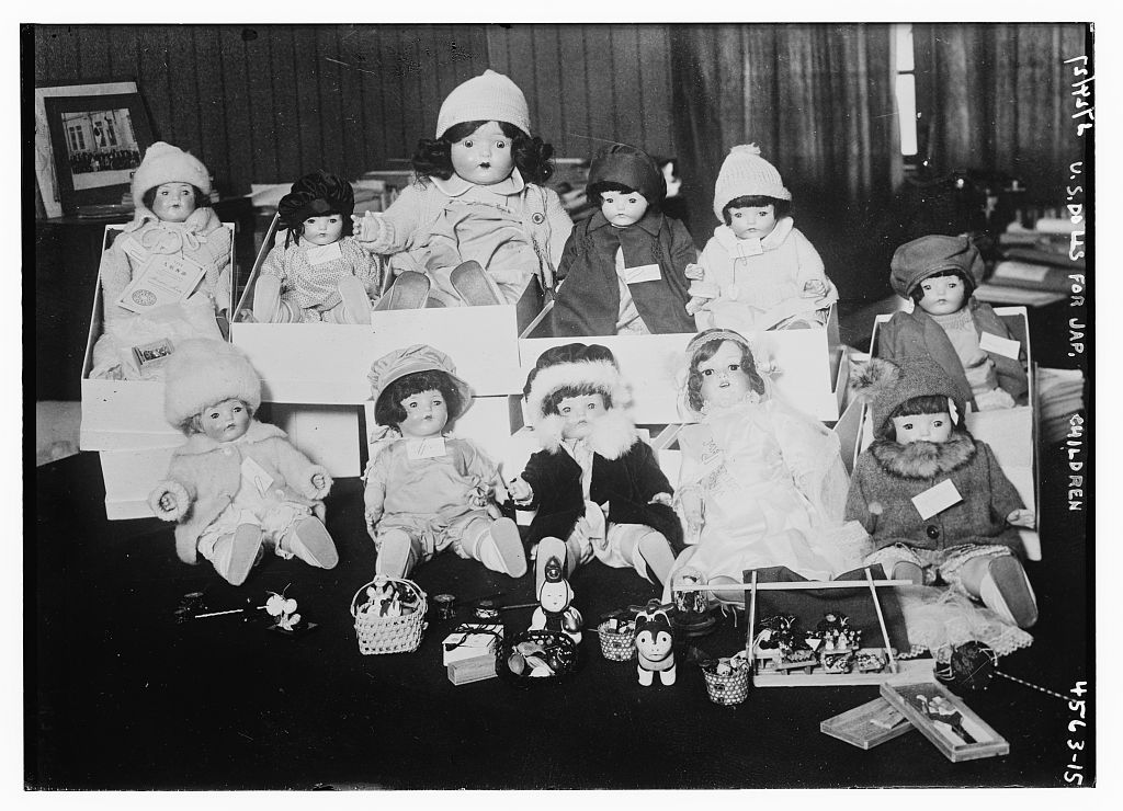 Bain News Service,, publisher. U.S. dolls for Jap[anese] children [between ca. 1915 and ca. 1920 1 negative : glass ; 5 x 7 in. or smaller. Notes: Title and date from unverified data provided by the Bain News Service on the negative. Forms part of: George Grantham Bain Collection (Library of Congress). Format: Glass negatives. Repository: Library of Congress, Prints and Photographs Division, Washington, D.C. 20540 USA, General information about the Bain Collection is available at Higher resolution image is available (Persistent URL): Call Number: LC-B2- 4563-15